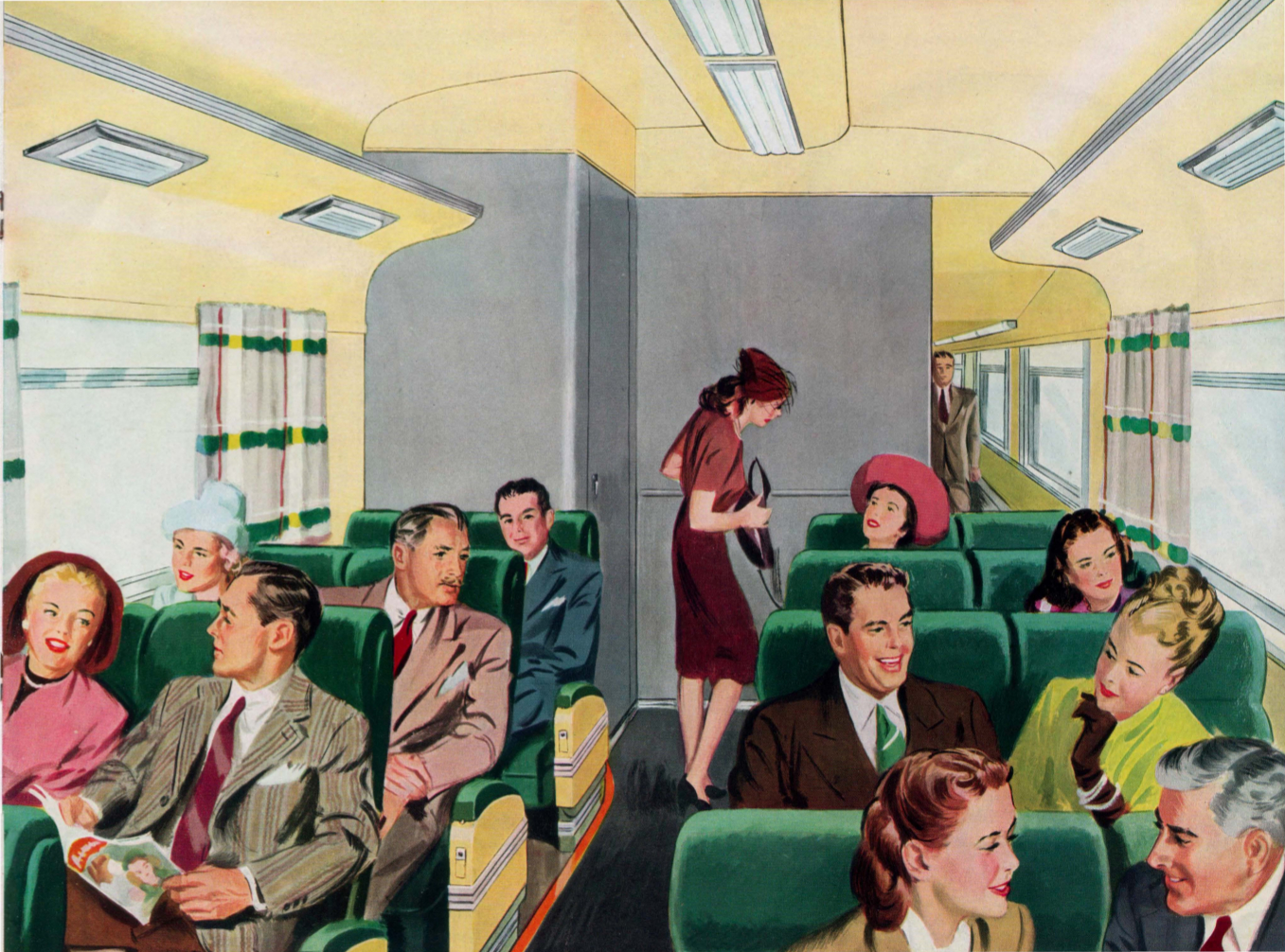 Artist's conception of the Star Dust chair car from a promotional brochure distributed by General Motors describing the Train of Tomorrow, a demonstrator built by GM and Pullman-Standard.